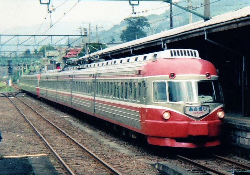 Odakyu 3000 series "SSE" EMU at Matsuda Station on an Asagiri service